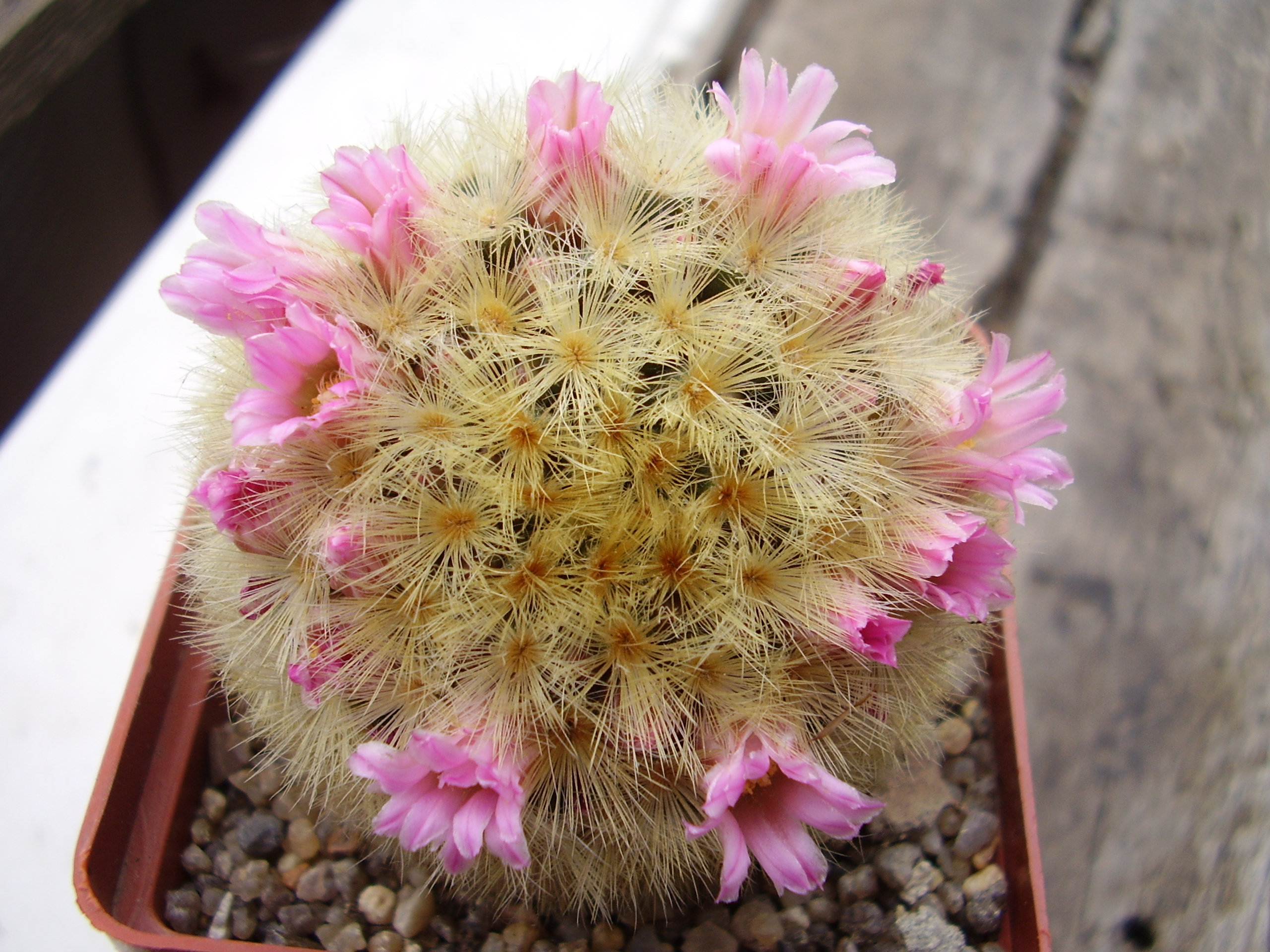 Mammillaria carmenae from collection of Yuriy Shostak, Mykolaiv, Ukraine